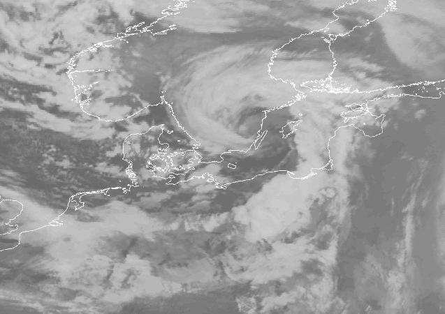 IR satellite view of Gorm 30 November 2015